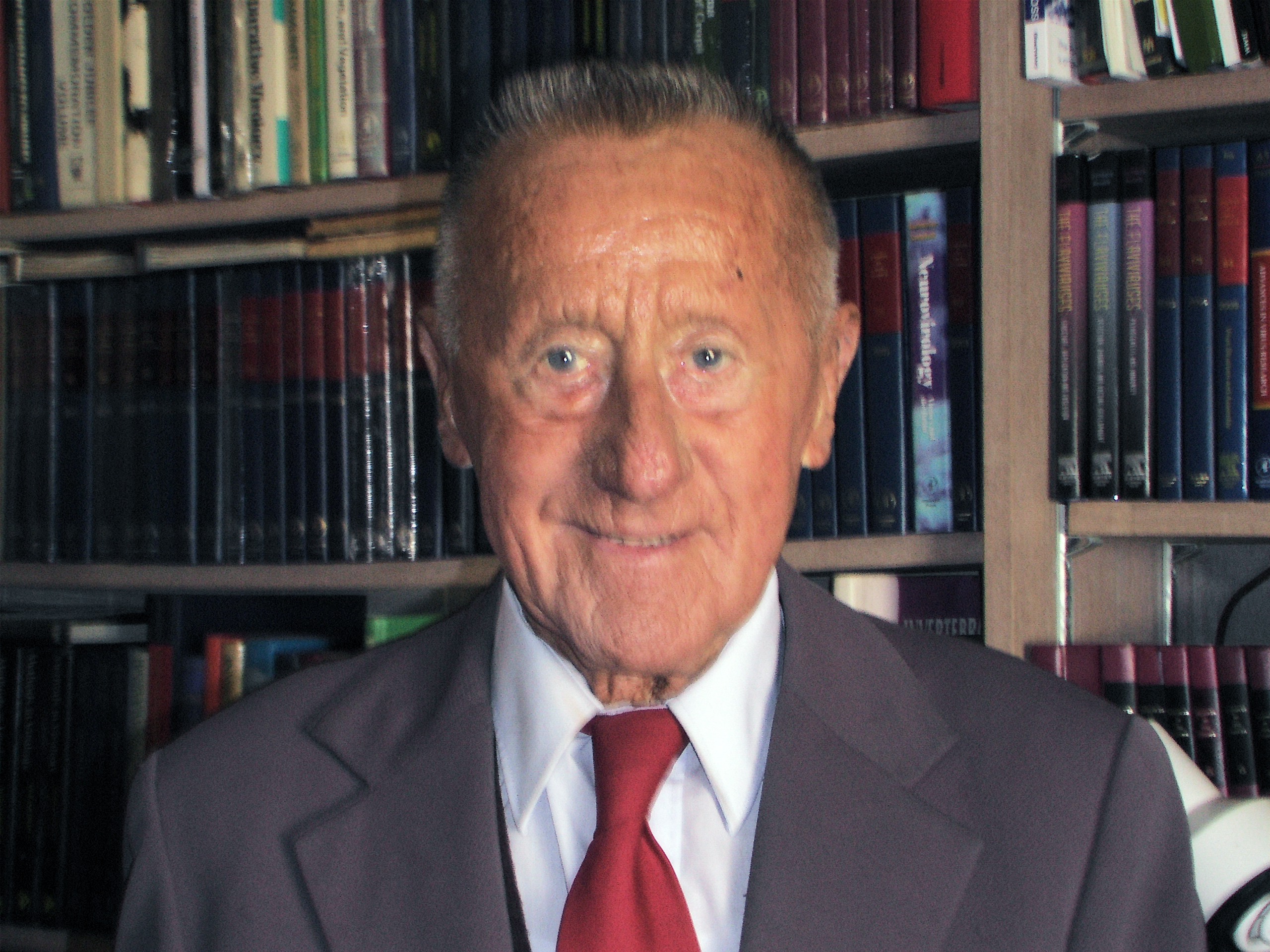 Karl Maramorosch, 2009-03-22